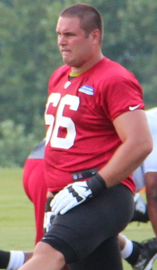 Peter Konz at Falcons training camp, 2013